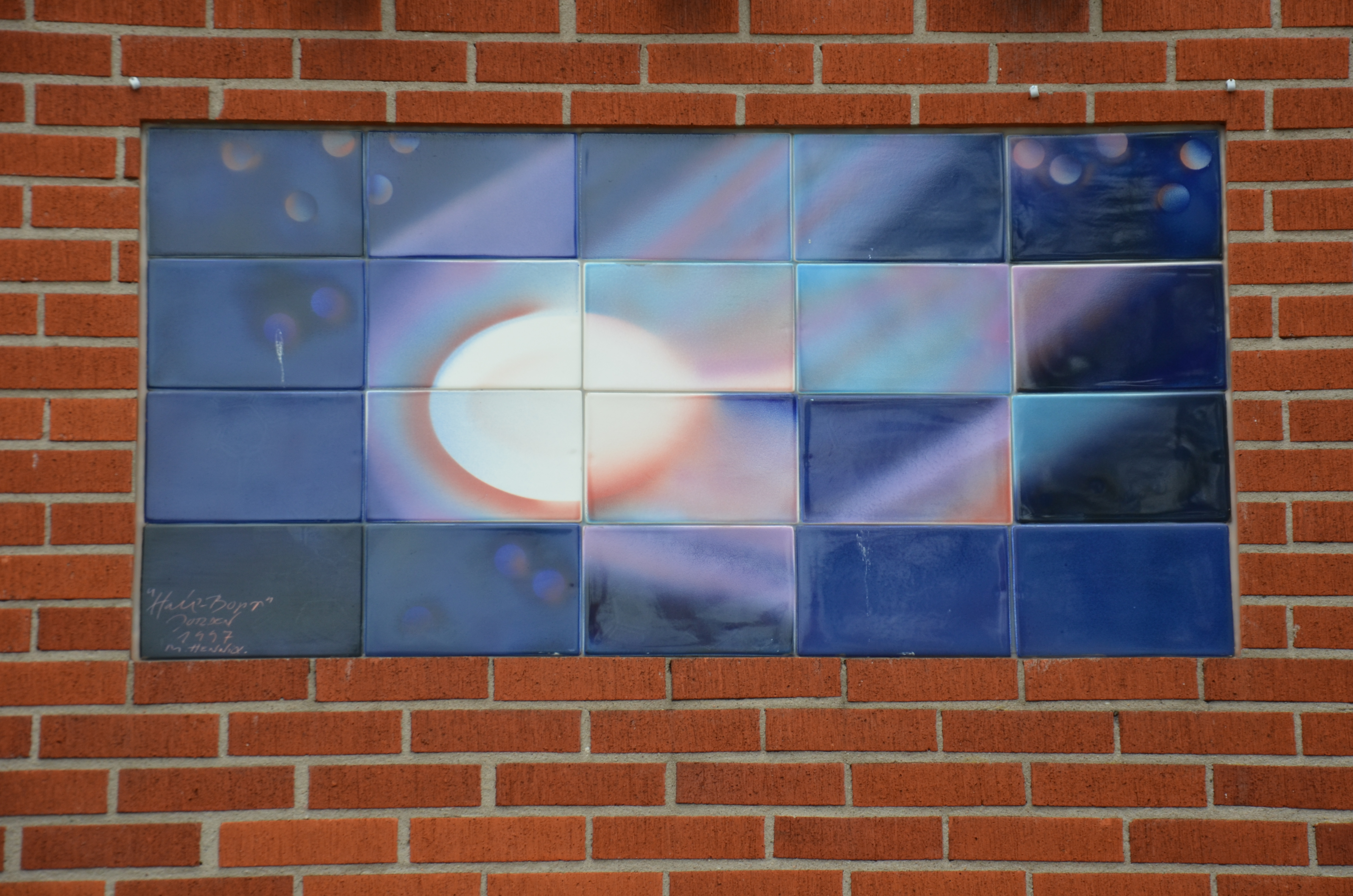 Kometen av Margareta Hennix